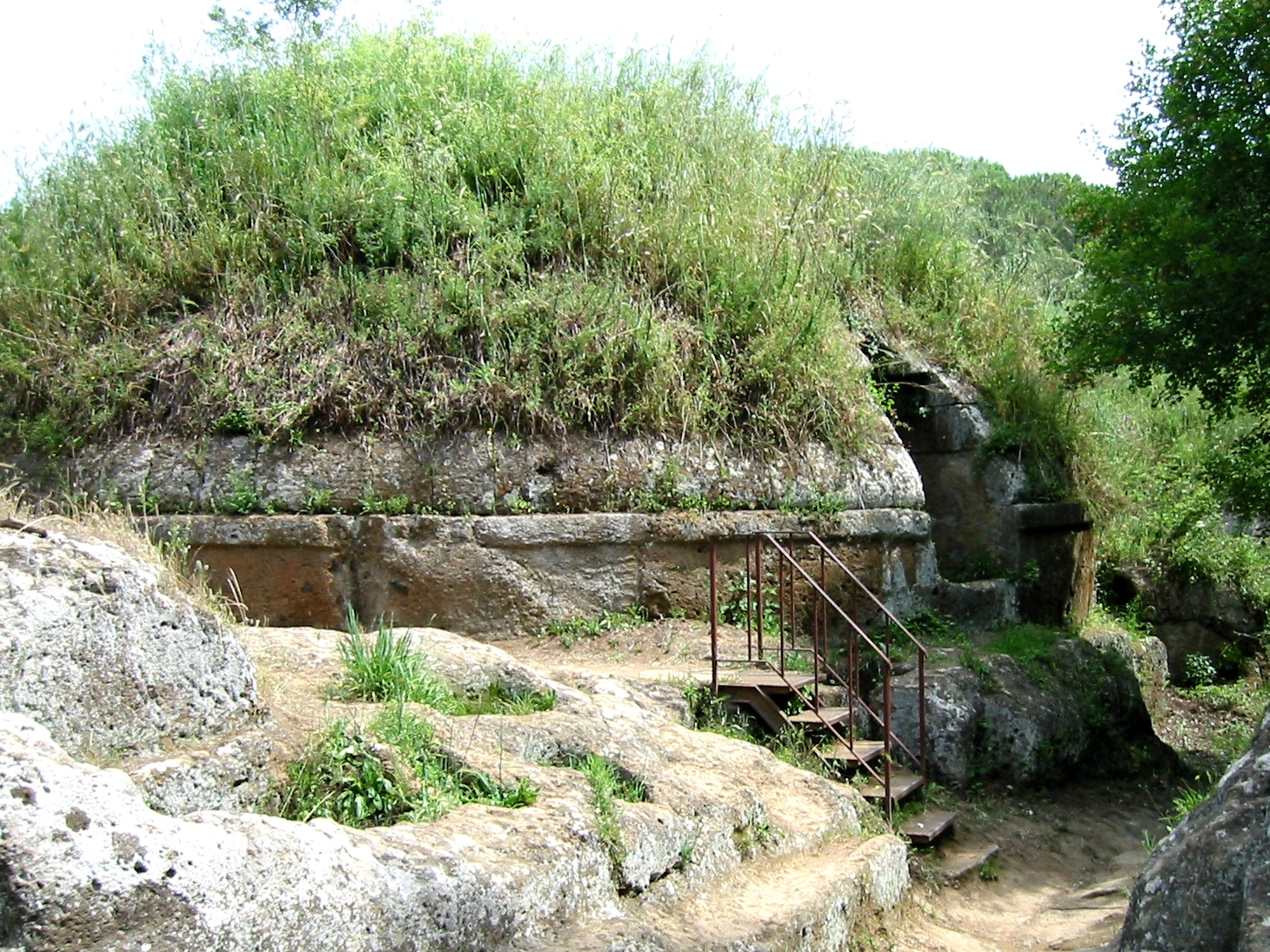 A burial mound, so-called Tumulus, part of the necropolis of Banditaccia at Cerveteri in Lazio, Italy.